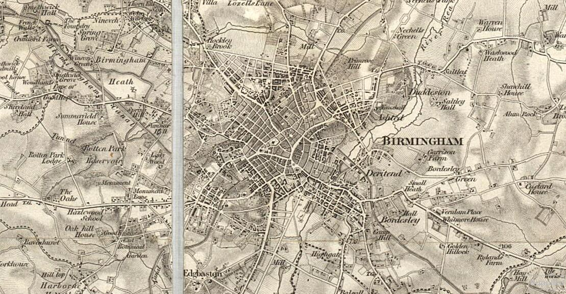 1834 ordnance survey map of birmingham 1:63,300